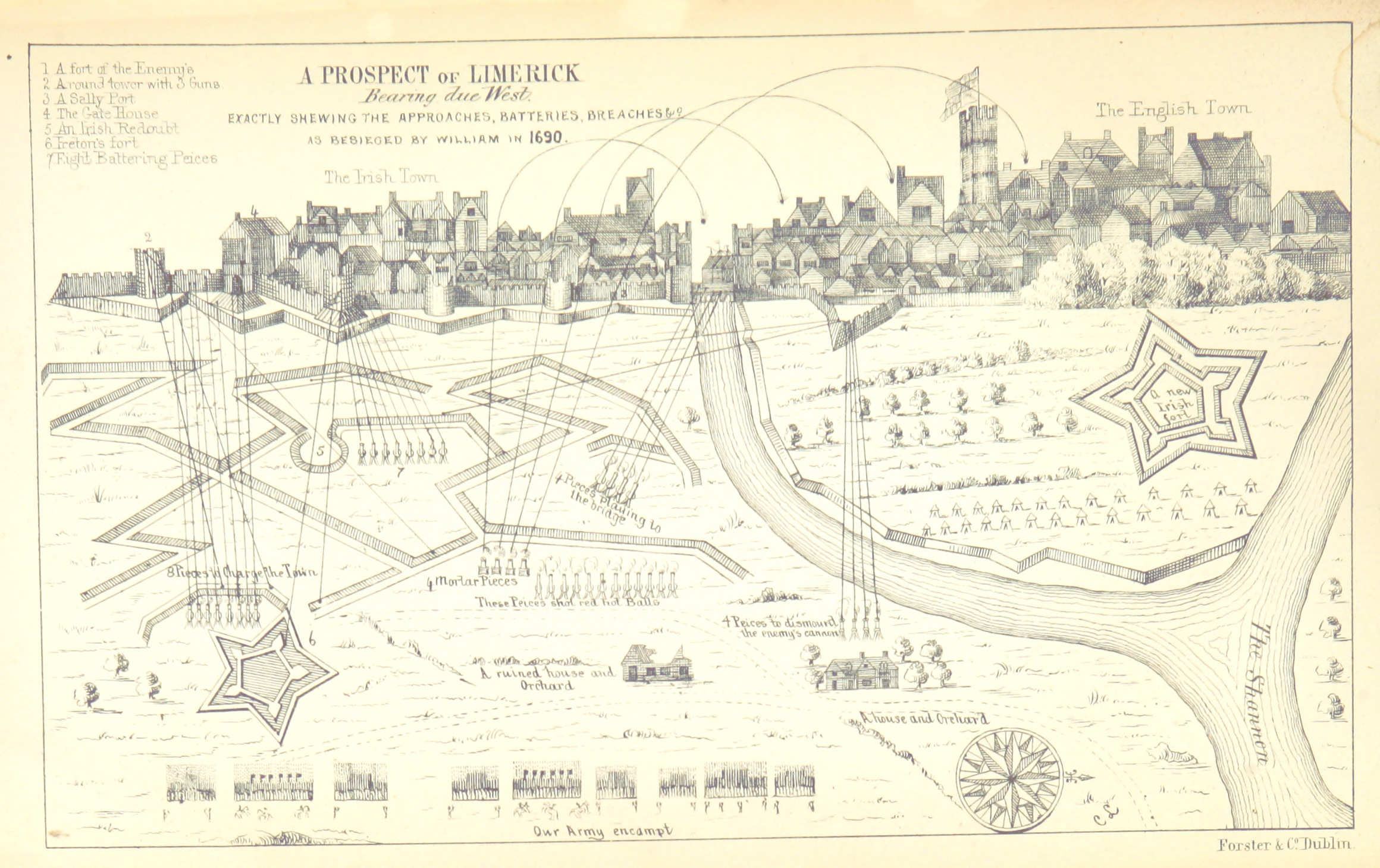 View this map on the BL Georeferencer service. Image taken from: Title: "The History of the Williamite and Jacobite Wars in Ireland; from their origin to the capture of Athlone. [With plates and maps.]" Author: CANE, Robert. Shelfmark: "British Library HMNTS 9509.bb.1." Page: 269 Date of Publishing: 1859 Issuance: monographic Identifier: 000594305 Explore: Find this item in the British Library catalogue, 'Explore'. Download the PDF for this book (volume: 0) Image found on book scan 269 (NB not necessarily a page number) Download the OCR-derived text for this volume: (plain text) or (json) Click here to see all the illustrations in this book and click here to browse other illustrations published in books in the same year. Order a higher quality version from here.